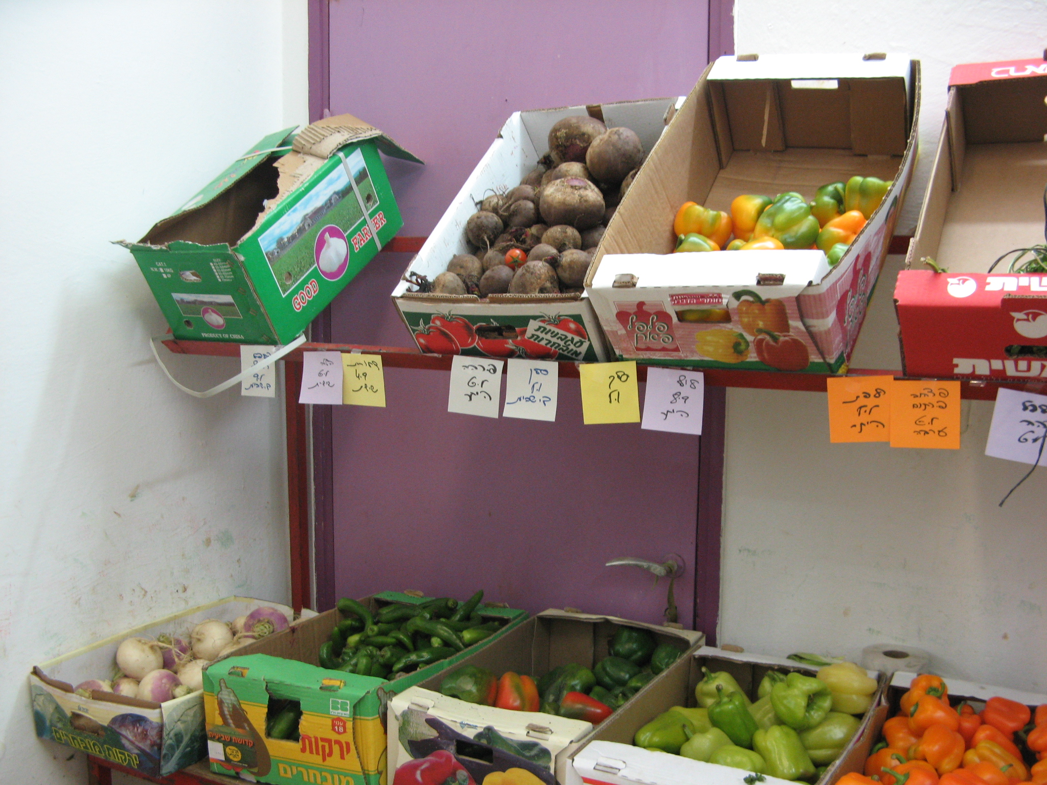 Vegetable stand in Shmita store, showing various options of shmita purchase